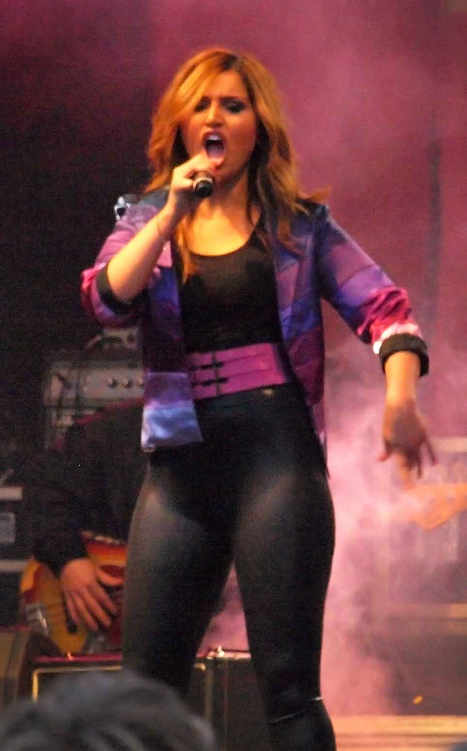 Swedish singer Janet Leon performing in Falun, Sweden.